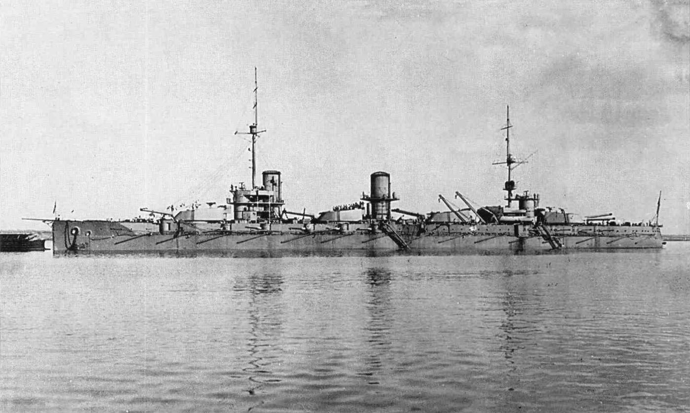 Battleship Volya, 1917.